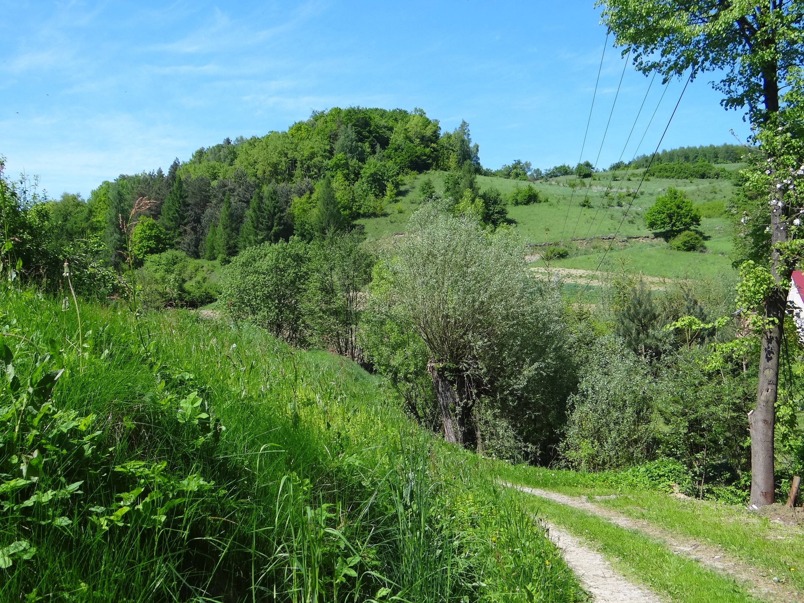 World War I Cemetery nr 142 in Ostrusza